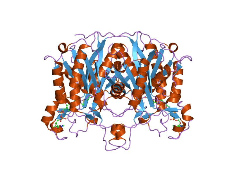 Cartoon representation of the molecular structure of protein registered with 1mzj code.